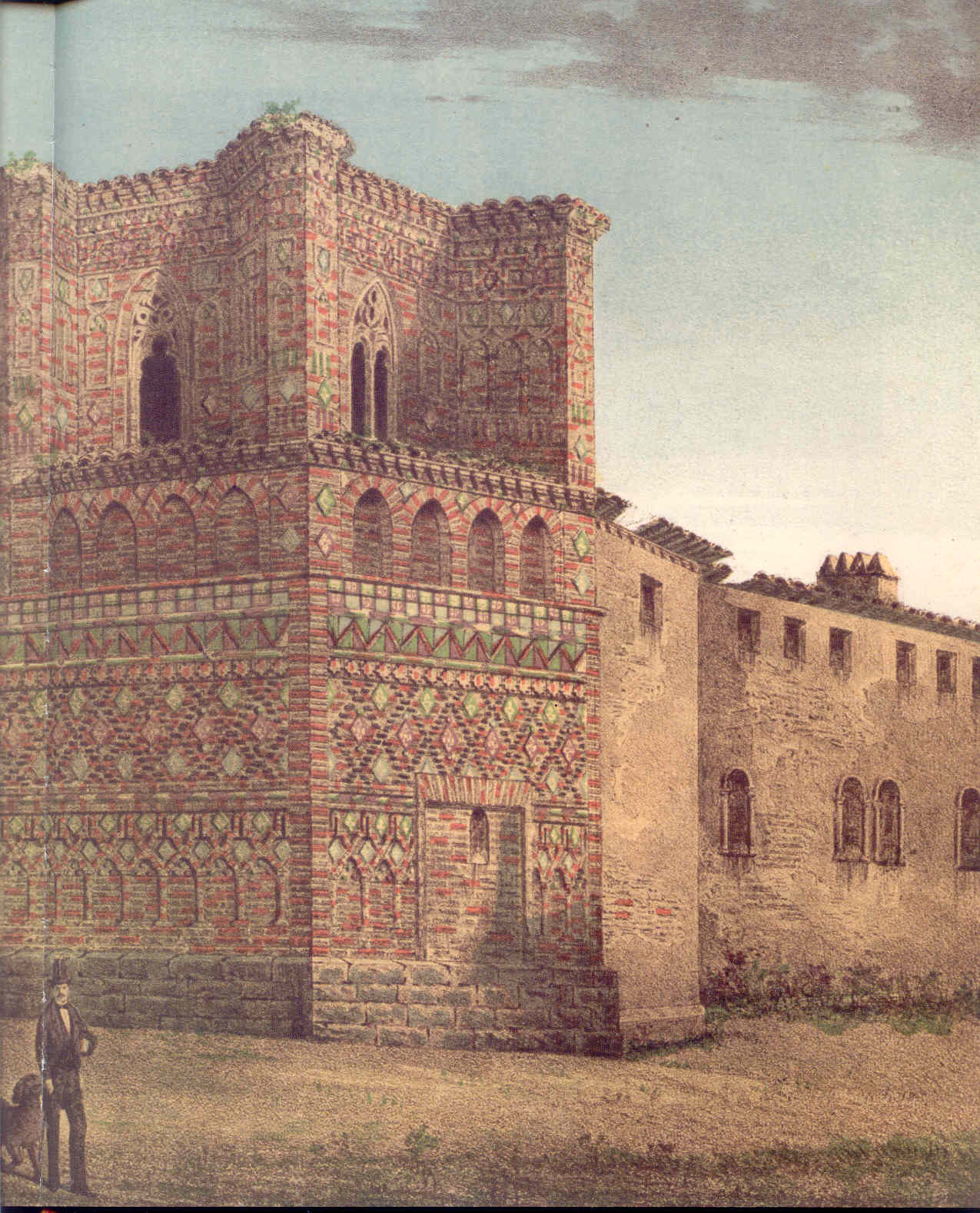 Mudéjar detail of the back facade of Iglesia de San Pedro Mártir in Catalayud.